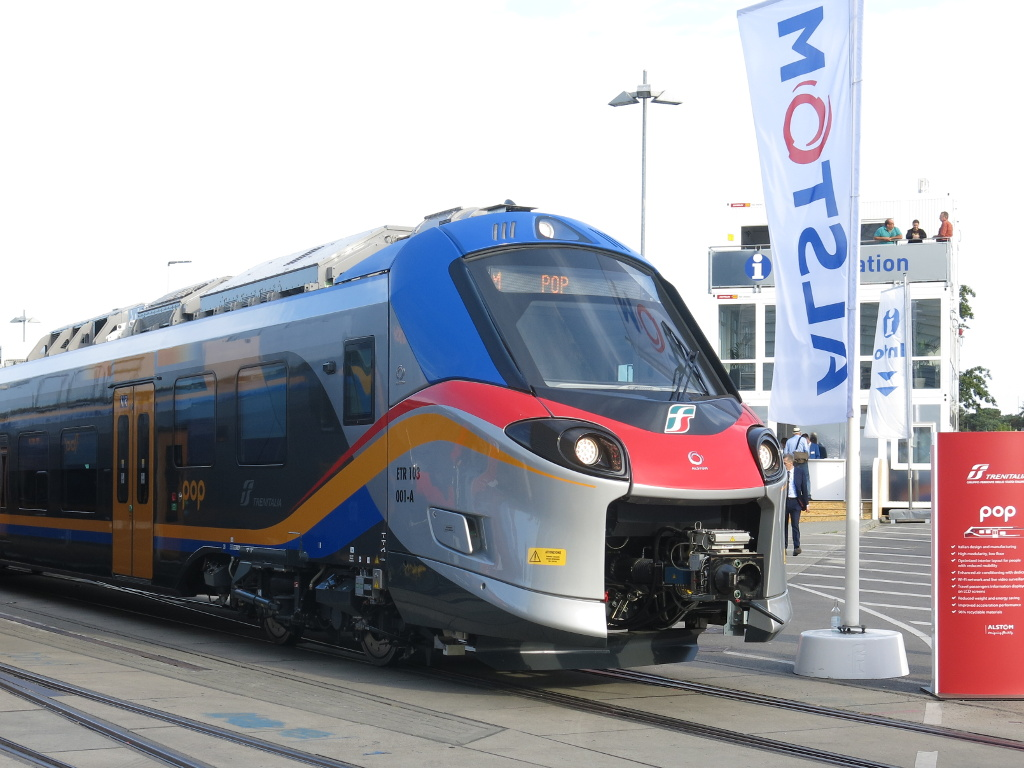 Trenitalia's POP regional train based on Alstom Coradia Stream platform presented at InnoTrans 2018